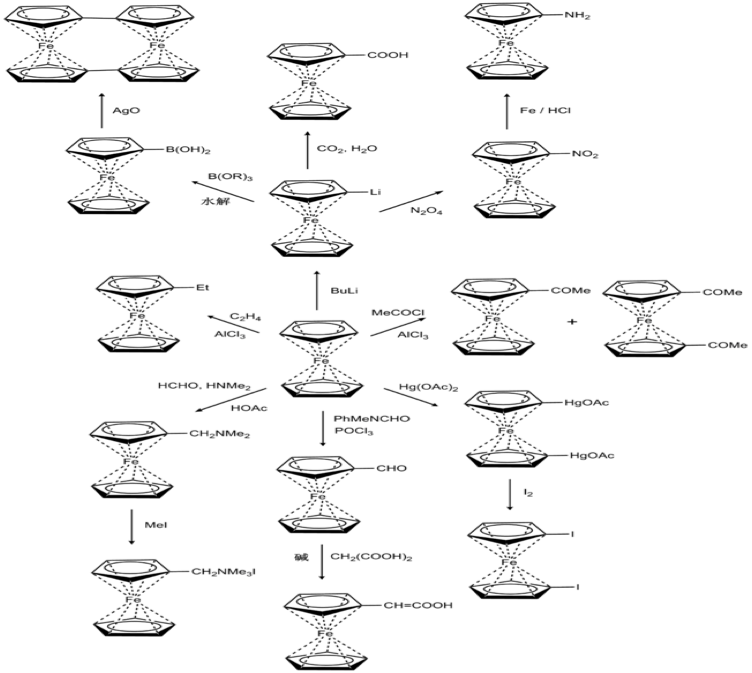 ferrocene reactivity